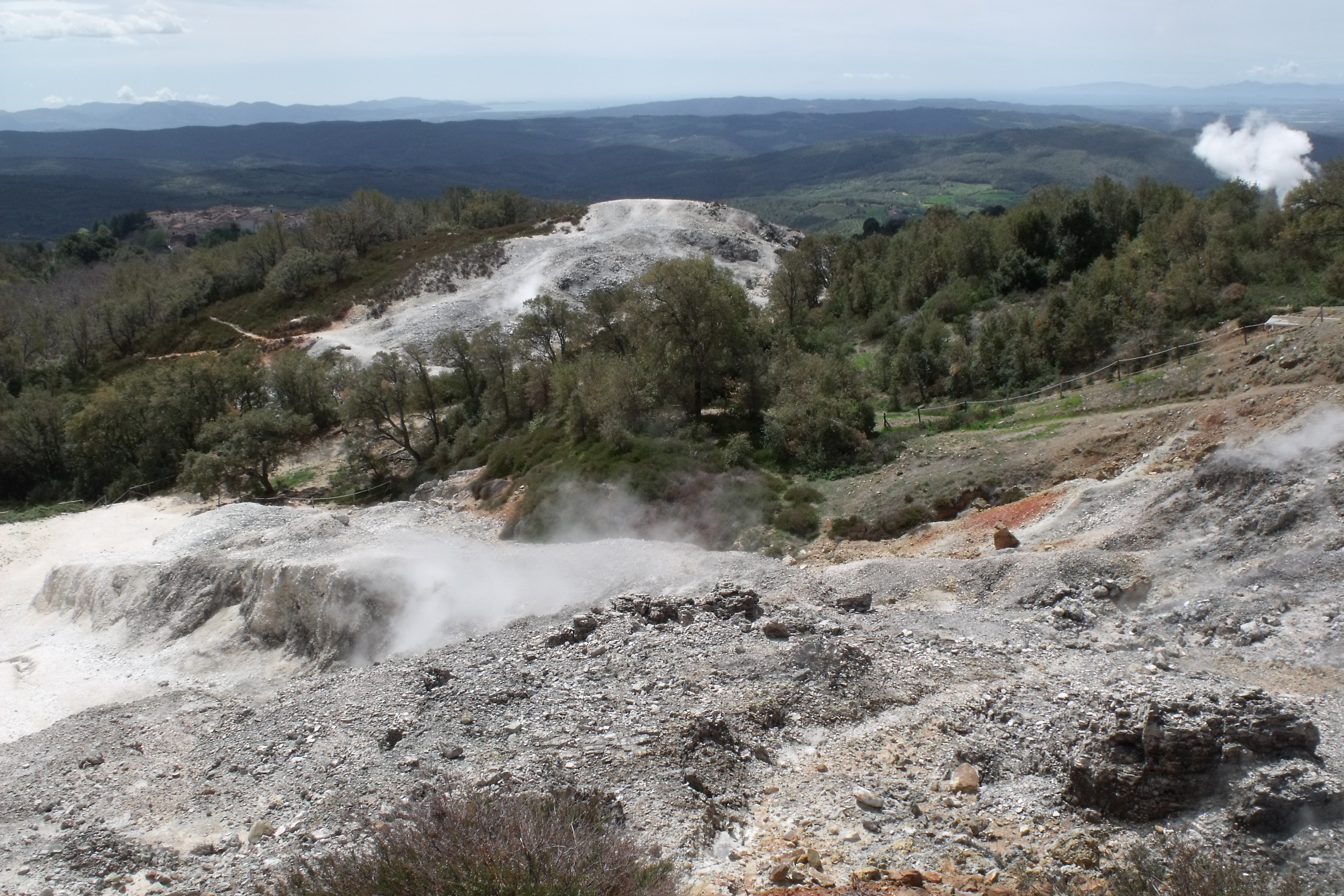 Biancane in Monterotondo Marittima, Province of Grosseto, Tuscany, Italy